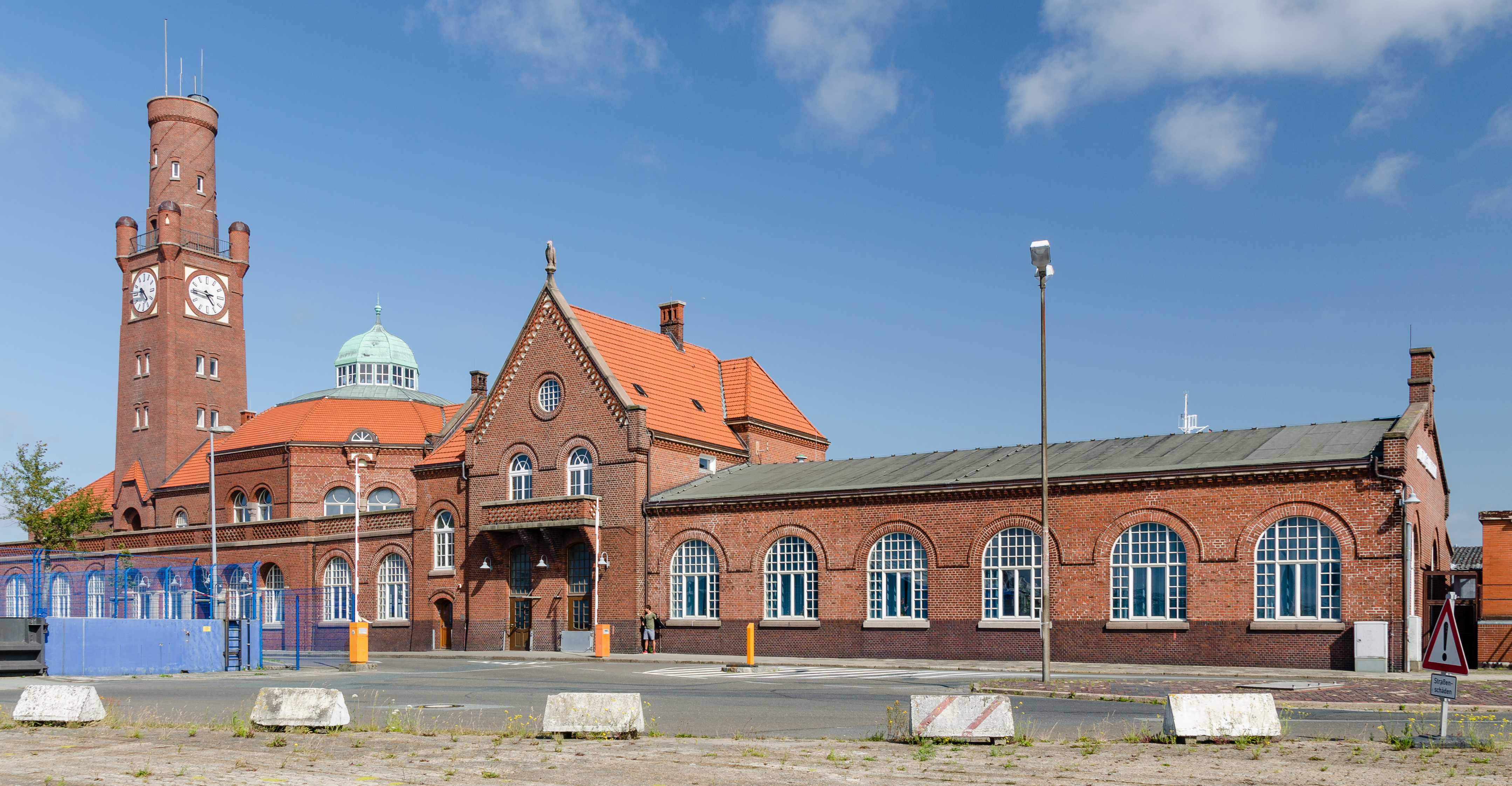 Hapag Halls in Cuxhaven